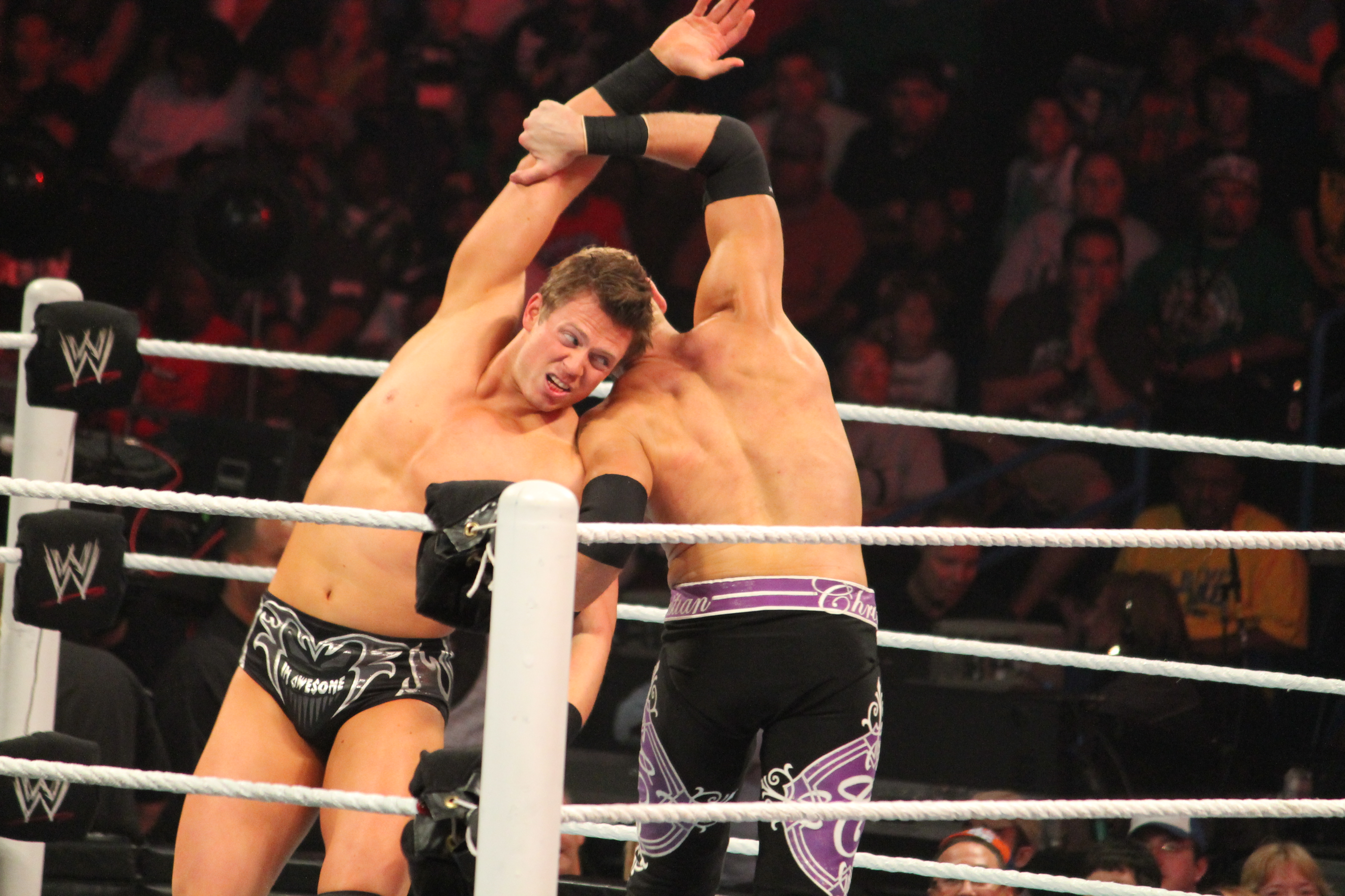 christian finisher